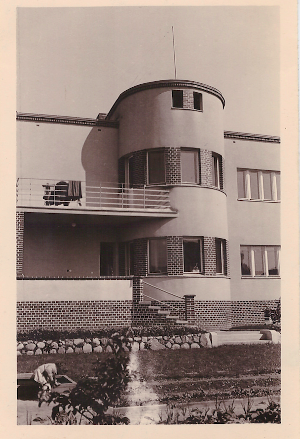 Dom przy ul. Kasztelańskiej 19 położonej na osiedlu Abisynia w Poznaniu. Na pierwszym piętrze w latach 1937-1939 mieszkał socjolog Florian Znaniecki. British